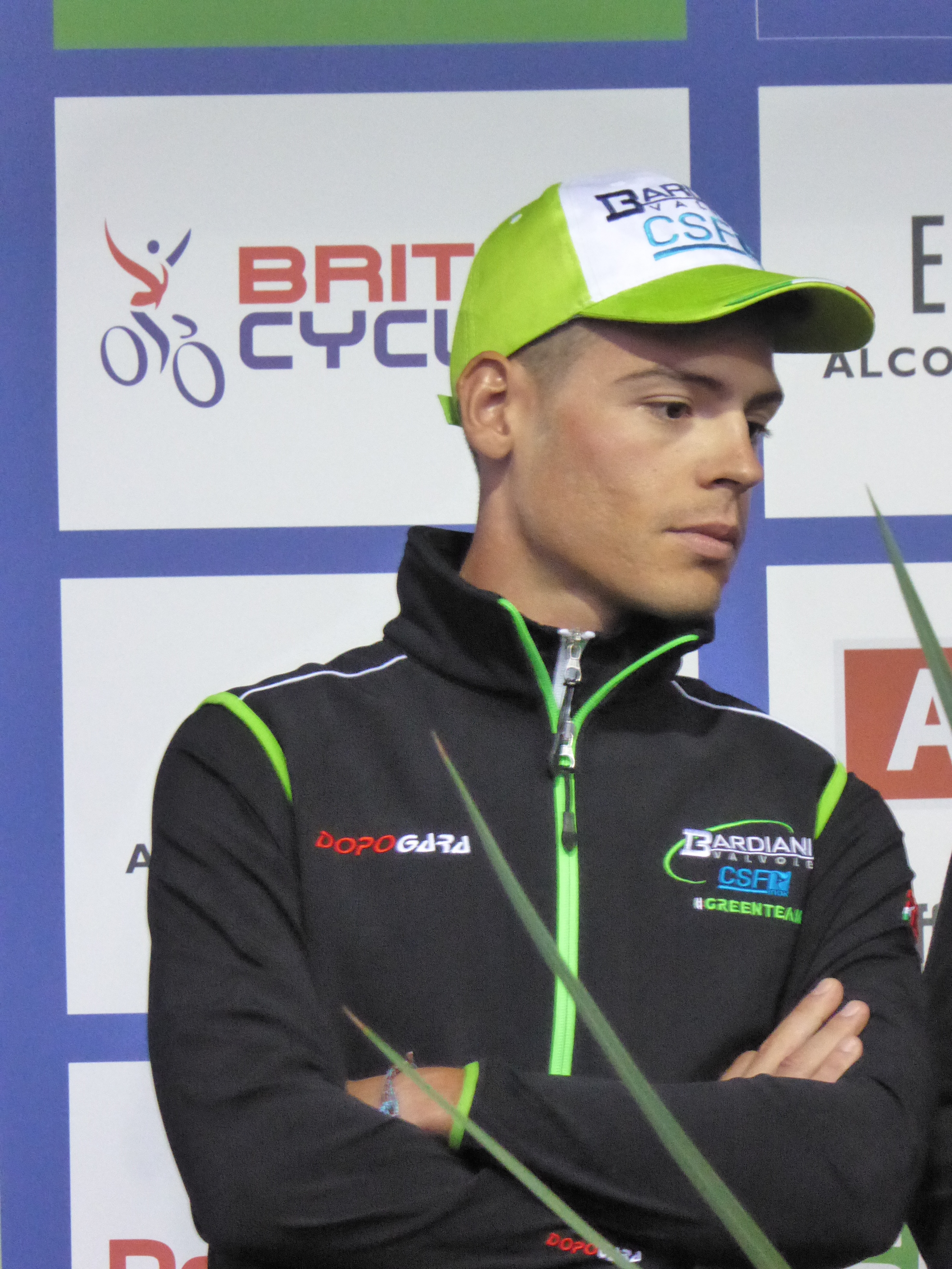 Edoardo Zardini (Bardiani-CSF), pictured at the 2016 Tour of Britain team presentation in Glasgow on 3 September 2016.